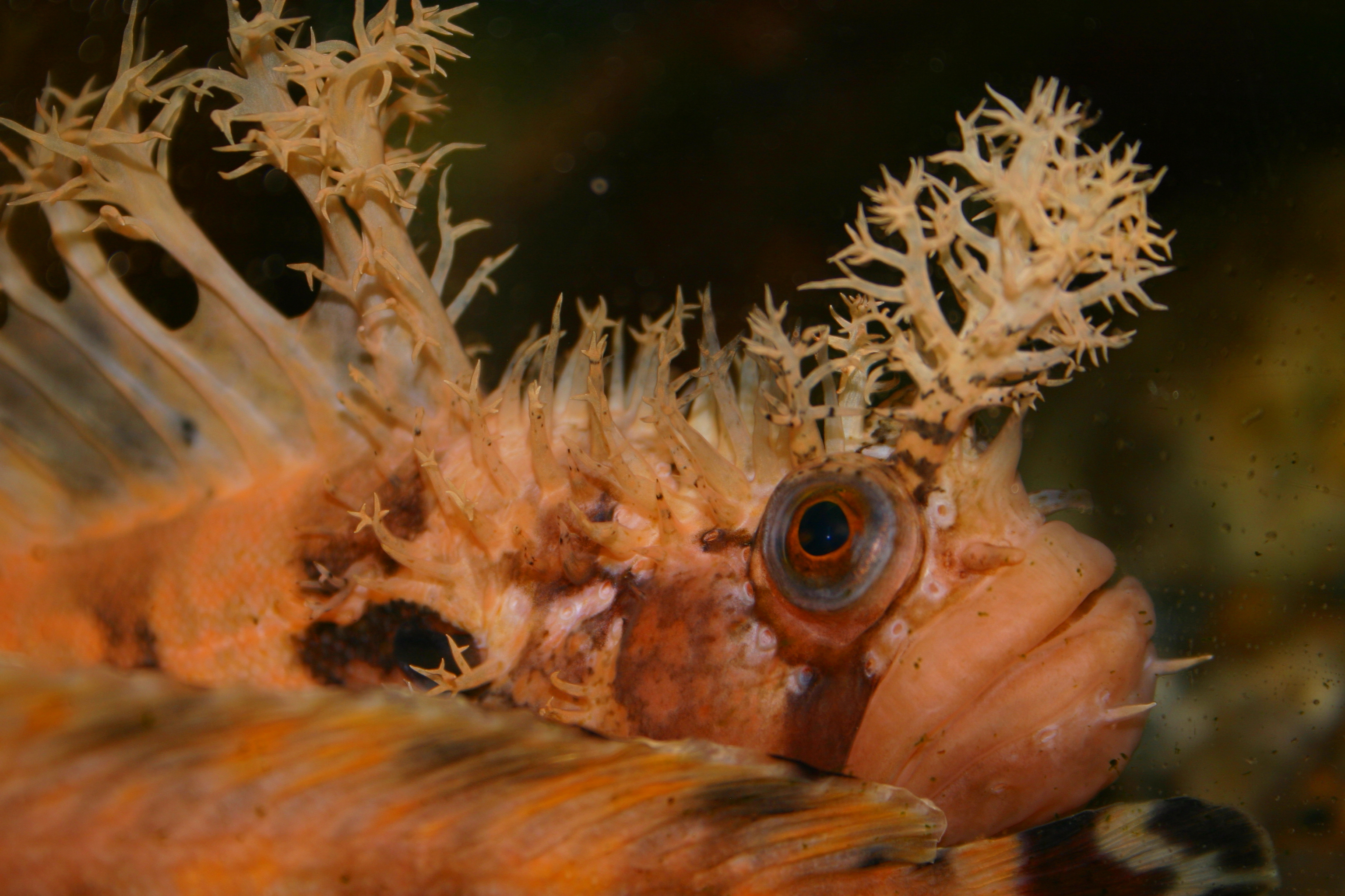 decorated warbonnet (Chirolophis decoratus) Image ID: fish4024, NOAA's Fisheries Collection Location: Alaska, Juneau